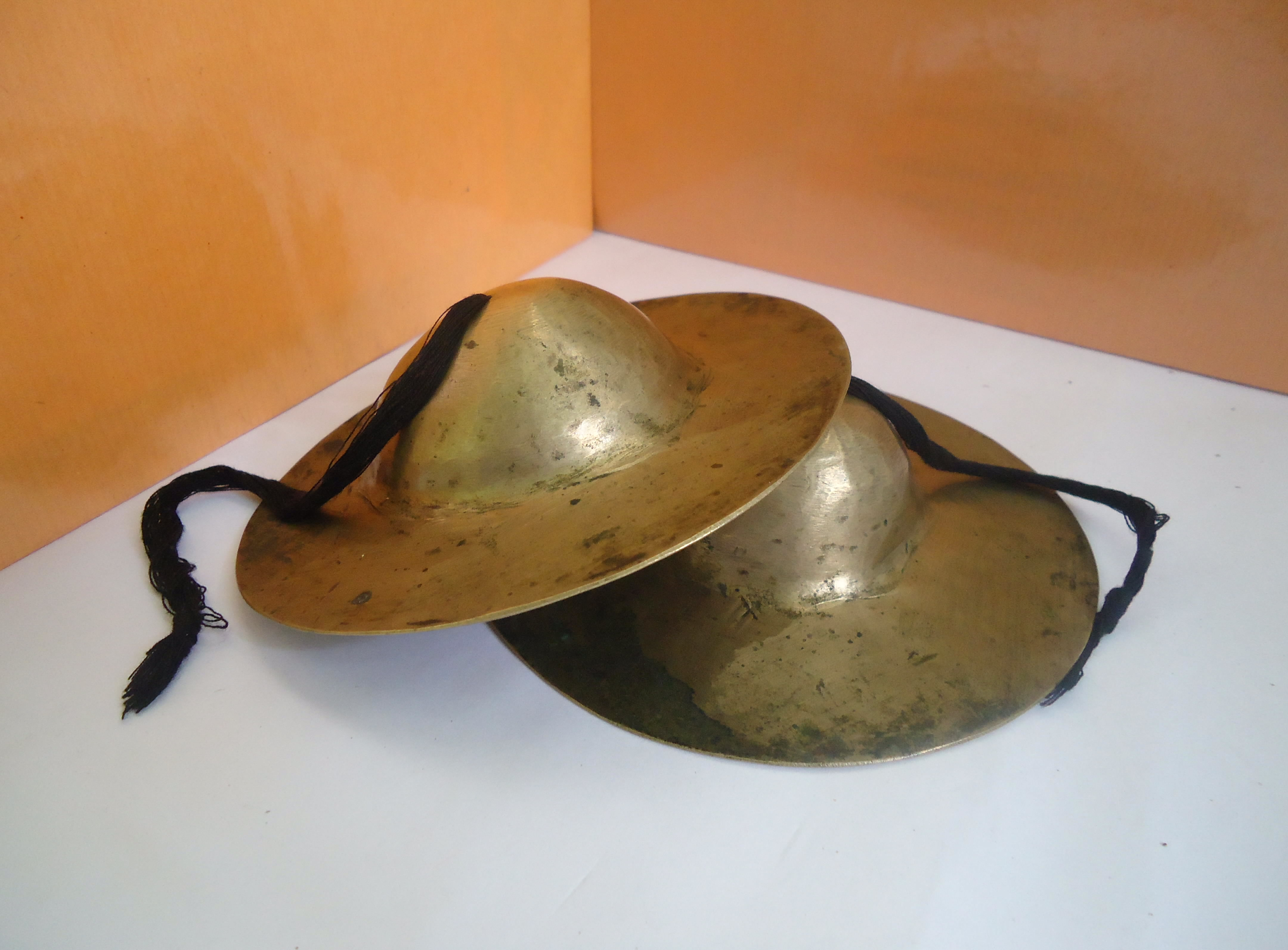 Khuti taal